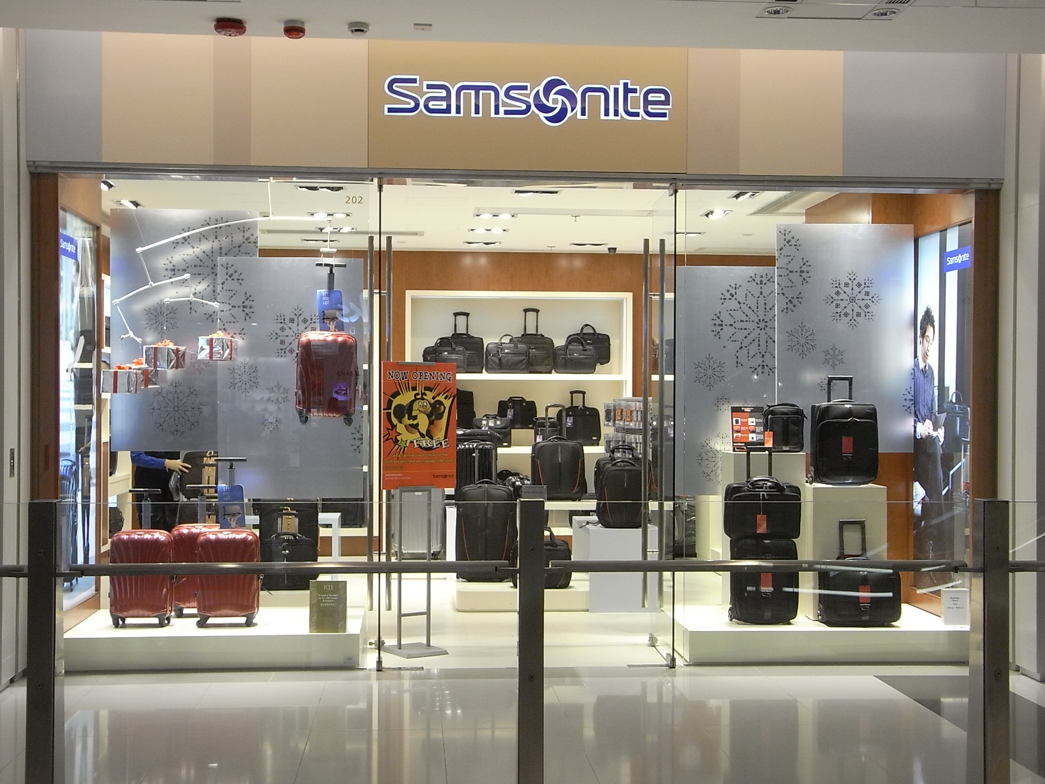 尖沙咀K11購物藝術館商場